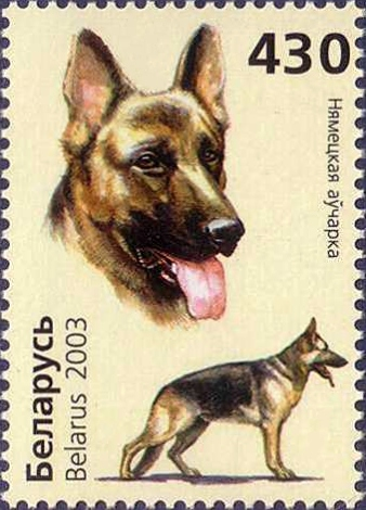 Stamp of Belarus